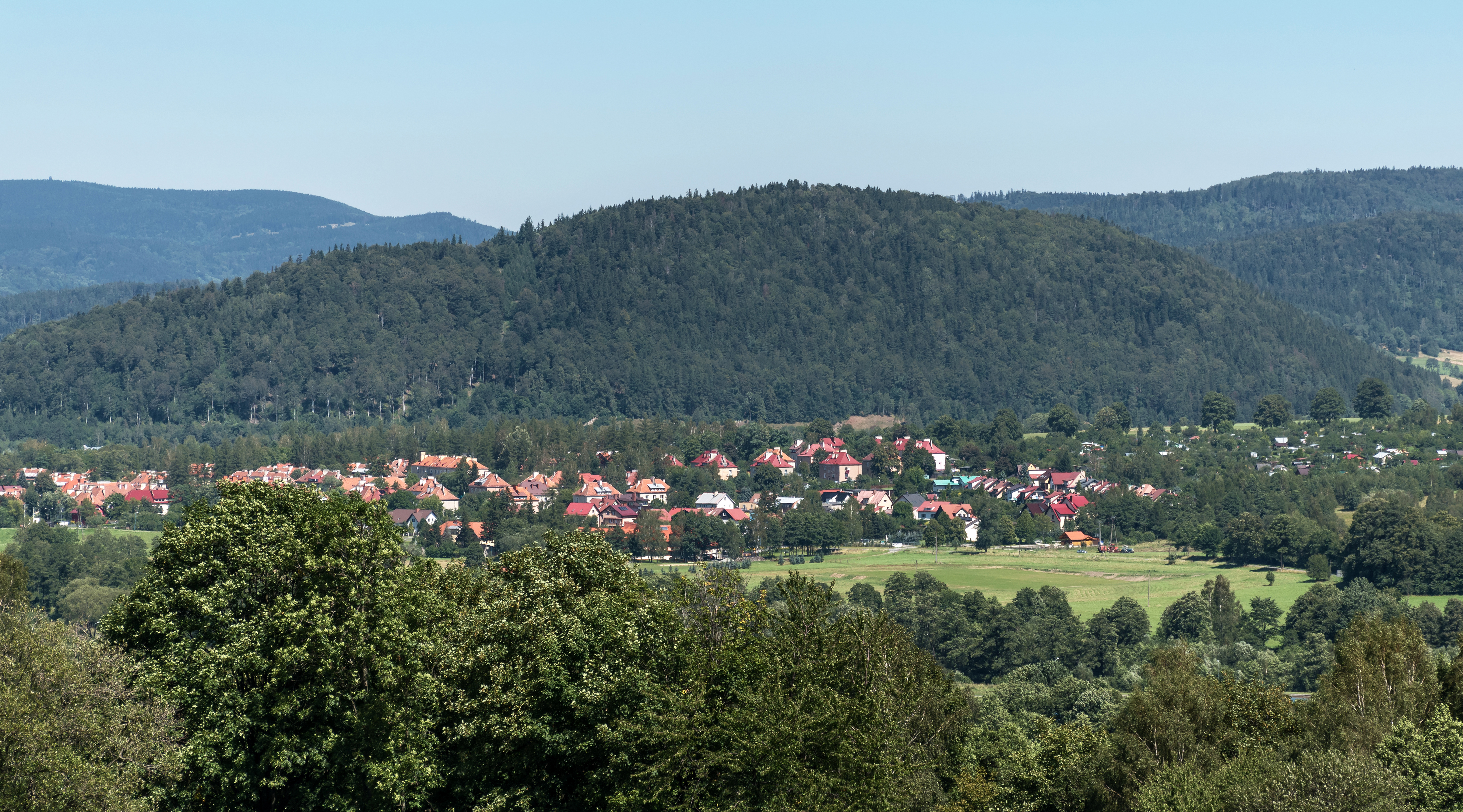 Sowia Kopa, Złote Mountains, Sudetes